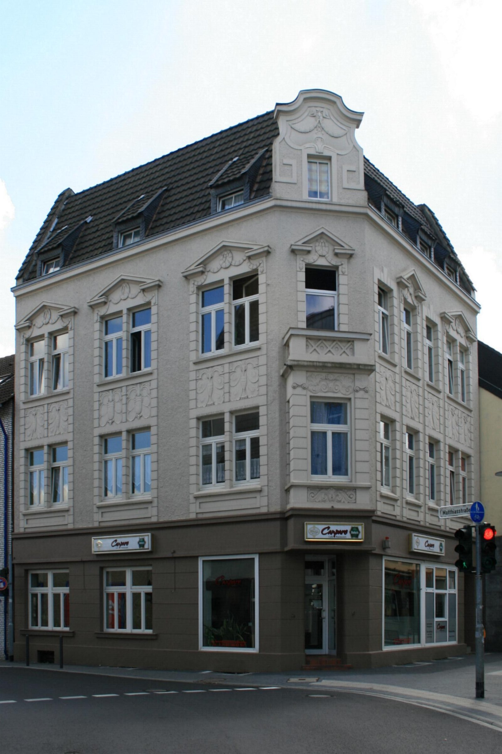 Cultural heritage monument No. E 008 in Mönchengladbach